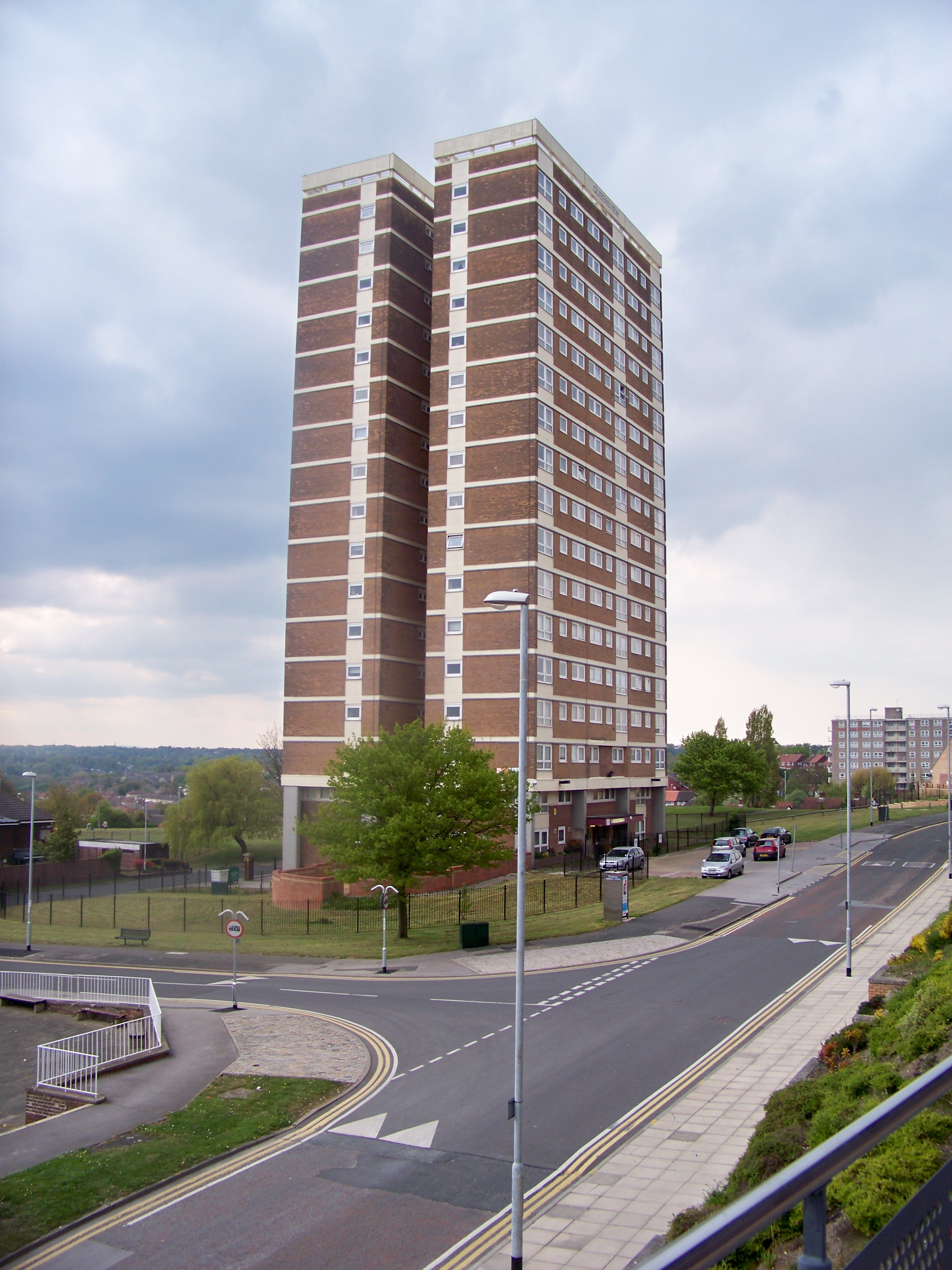 Queensview, a sheltered housing block of flats in Seacroft, Leeds, West Yorkshire. The picture was taken from the platform to the rear of the Seacroft Green Shopping Centre on the afternoon of Thursday the 13th of May 2010.